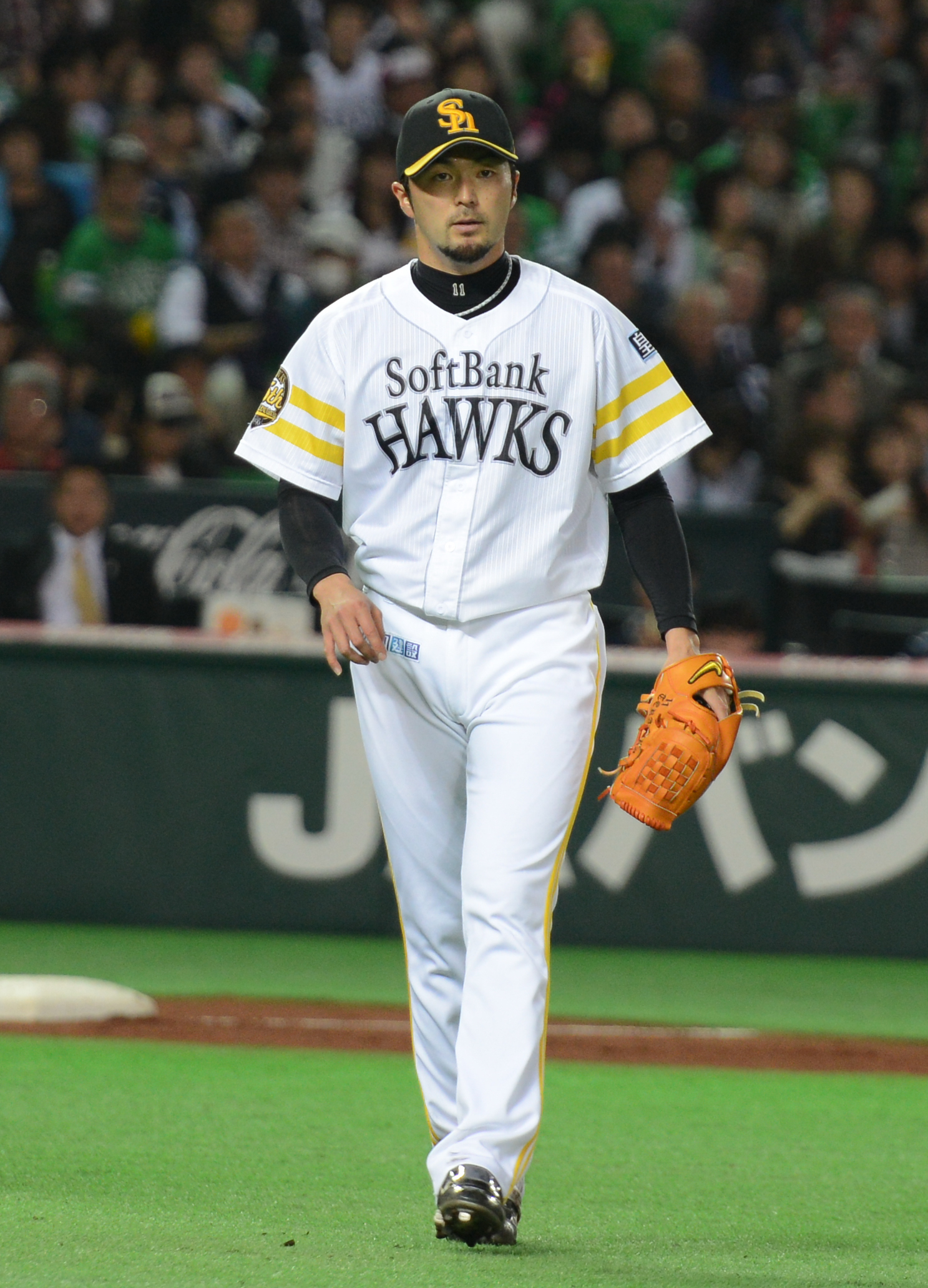 Hayato Terahara, pitcher of the Fukuoka SoftBank Hawks, at Fukuoka Dome.